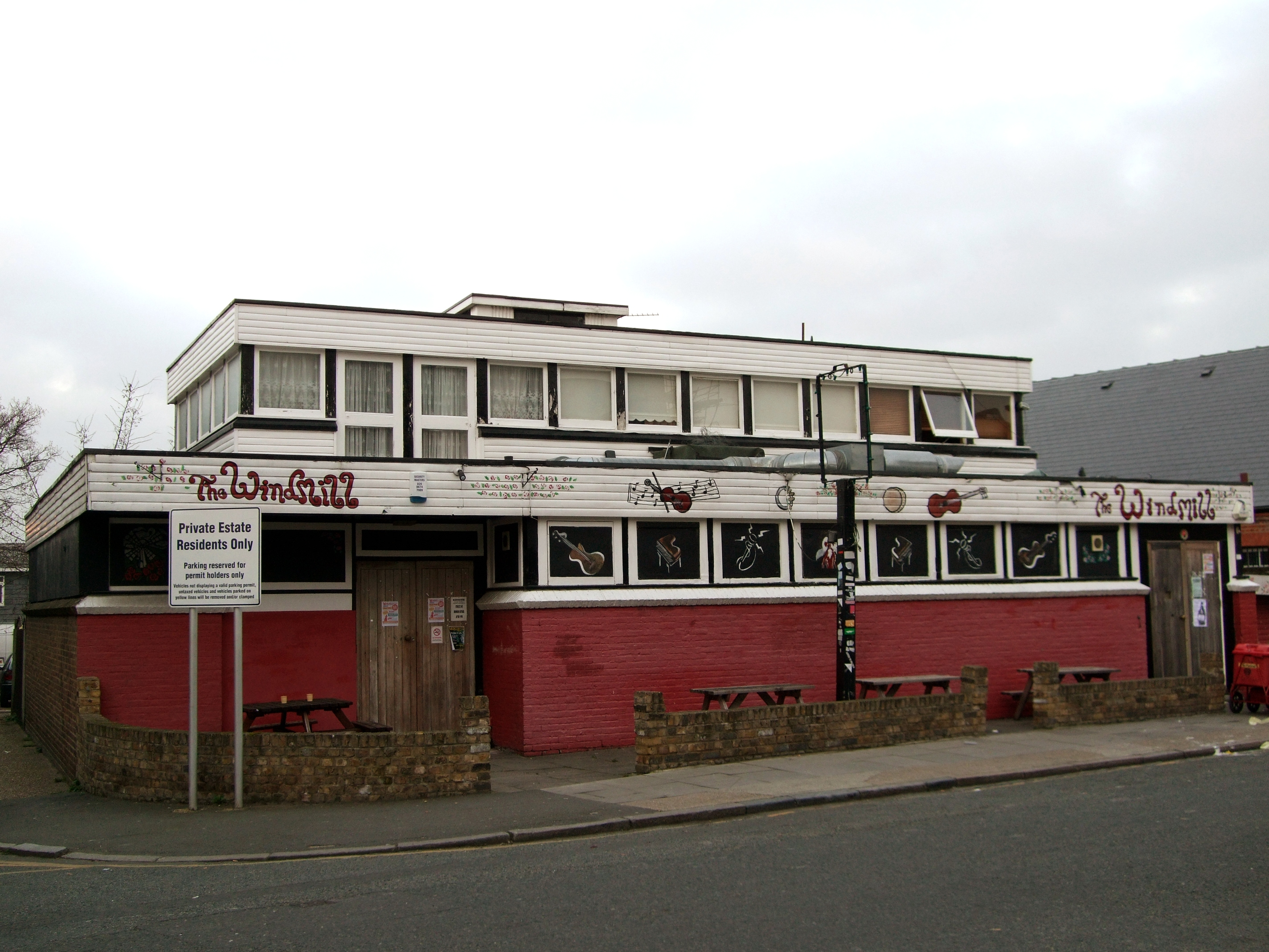 Very much an estate pub, but a good one, which puts on a great range of gigs, both local and touring musicians. It has a garden (with a small side room) and does BBQs in the summer. Address: 22 Blenheim Gardens. Owner: (website). Links: Randomness Guide to London Fancyapint Beer in the Evening